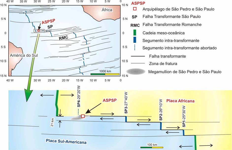 Map of Saint Peter Saint Paul Islets